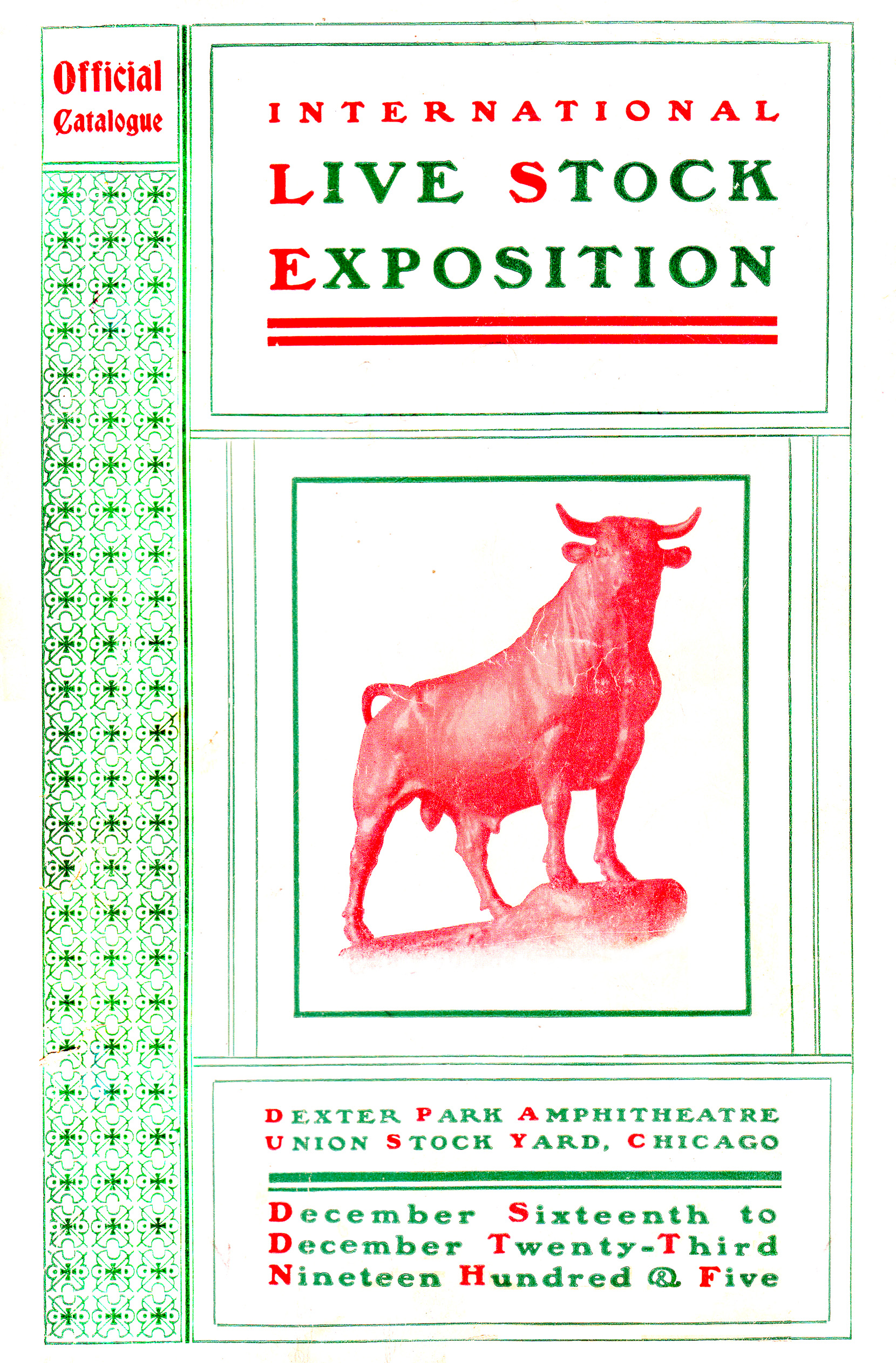 1905 International Live Stock Exposition Official Catalogue, December 16-23, 1905. (front cover)